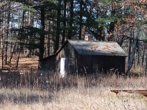 Aldo Leopold Shack, near Baraboo, Wisconsin.